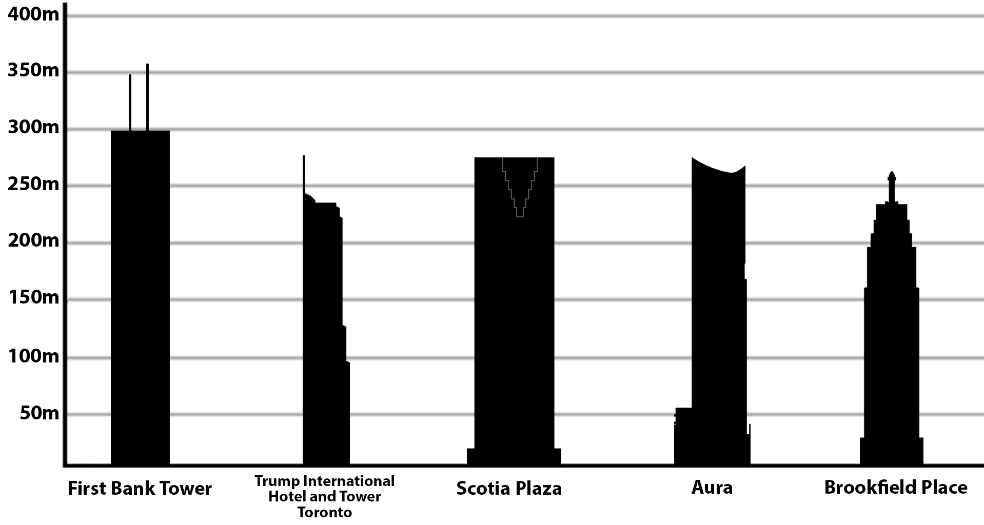 Tallest buildings in Canada; Used data from .